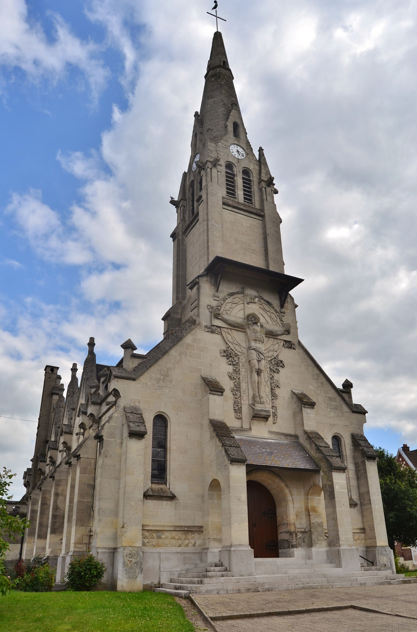 église St Ranulphe